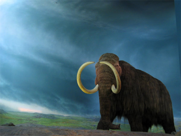 Royal BC Museum, Victoria, British Columbia.